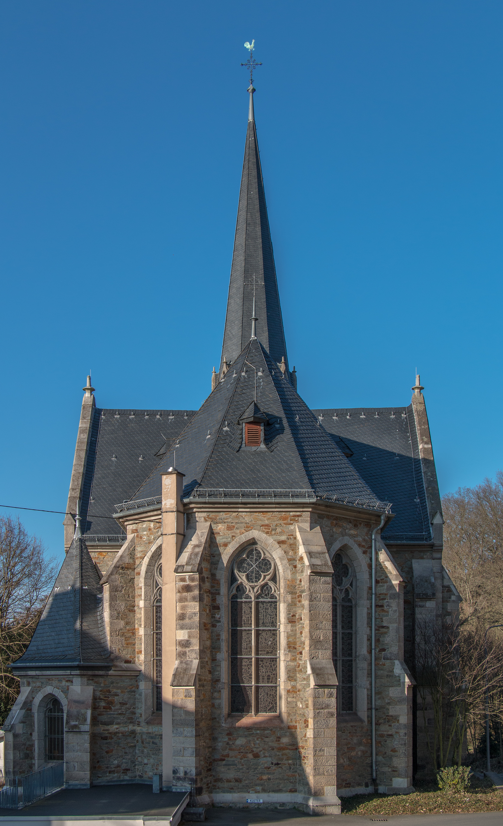 Herz-Jesu-Kirche, Wiesbaden-Sonnenberg